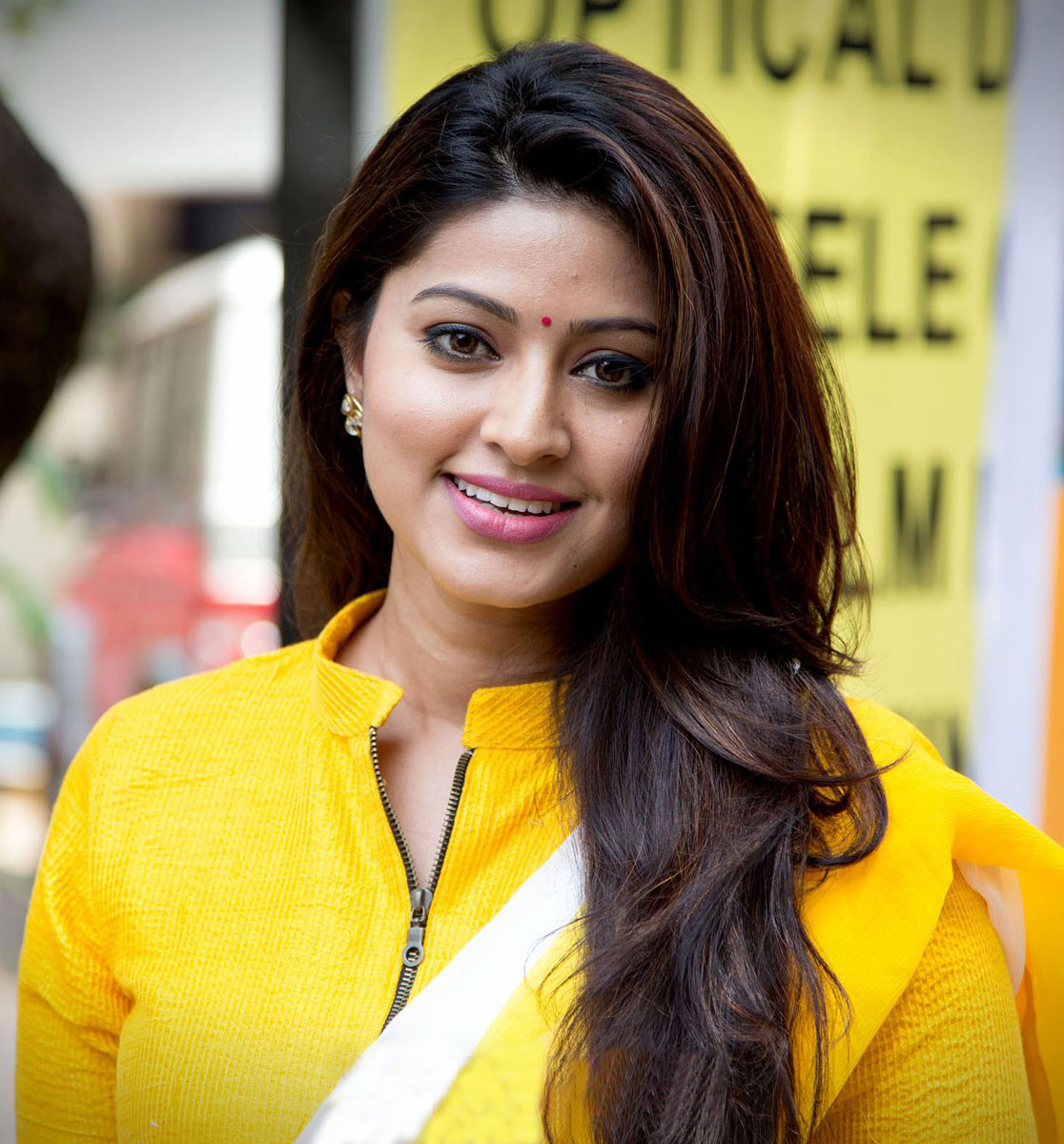 Sneha at Un Samayal Arayil Press Meet